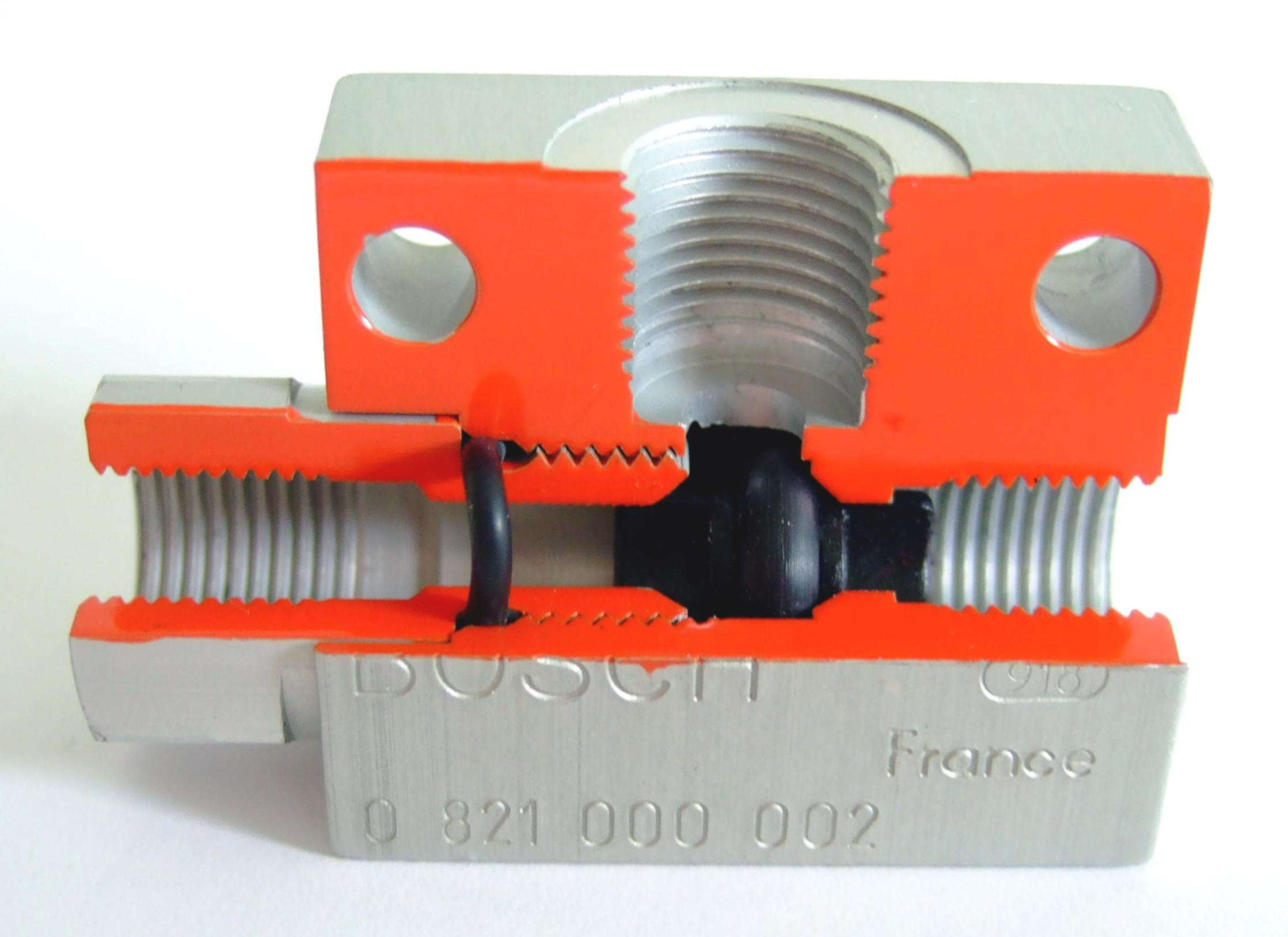 Intersection of a shuttle valve